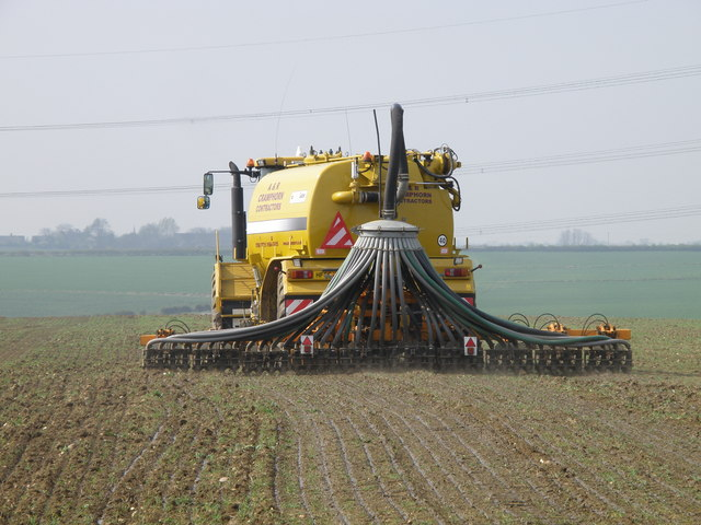 Slurry applicator. With the tightening of the rules governing the application of slurries to farmland this machine is the future of liquid application. The slurry is pumped down to a disc cultivator head to ensure ground contact. The curious crab like setting of the wheels is deliberate. Whilst in application mode the operator selects this steering mode to minimise soil compaction.